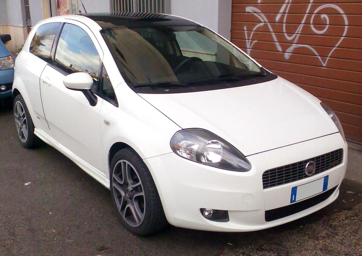 Fiat Grande Punto Sport 2008